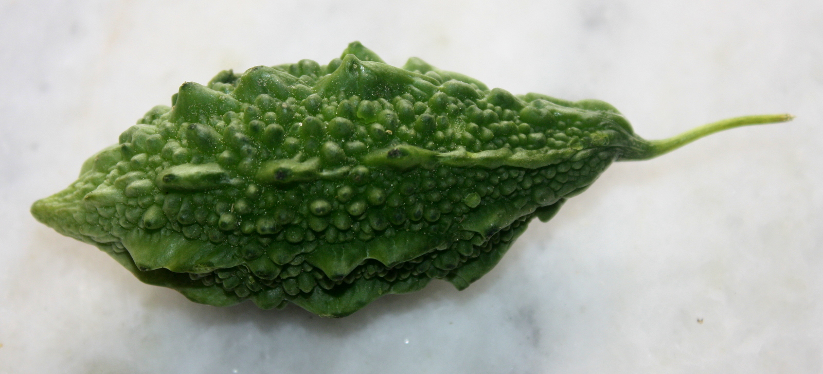 Bitter gourd (করলা ), Kolkata, West Bengal, India